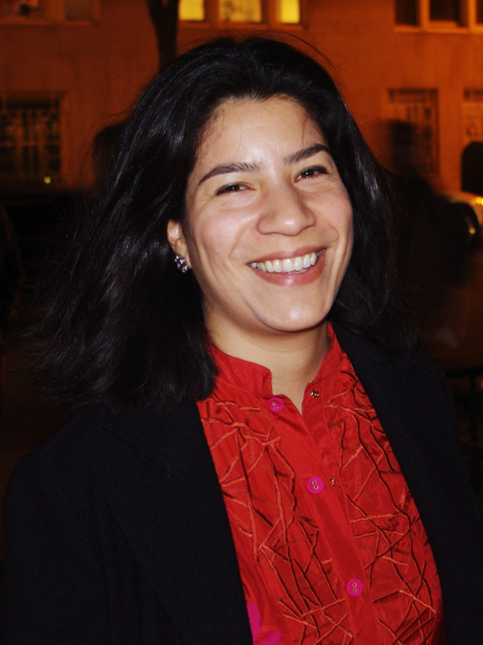 From the National Book Critics Circle Awards for the publishing year 2011 by David Shankbone